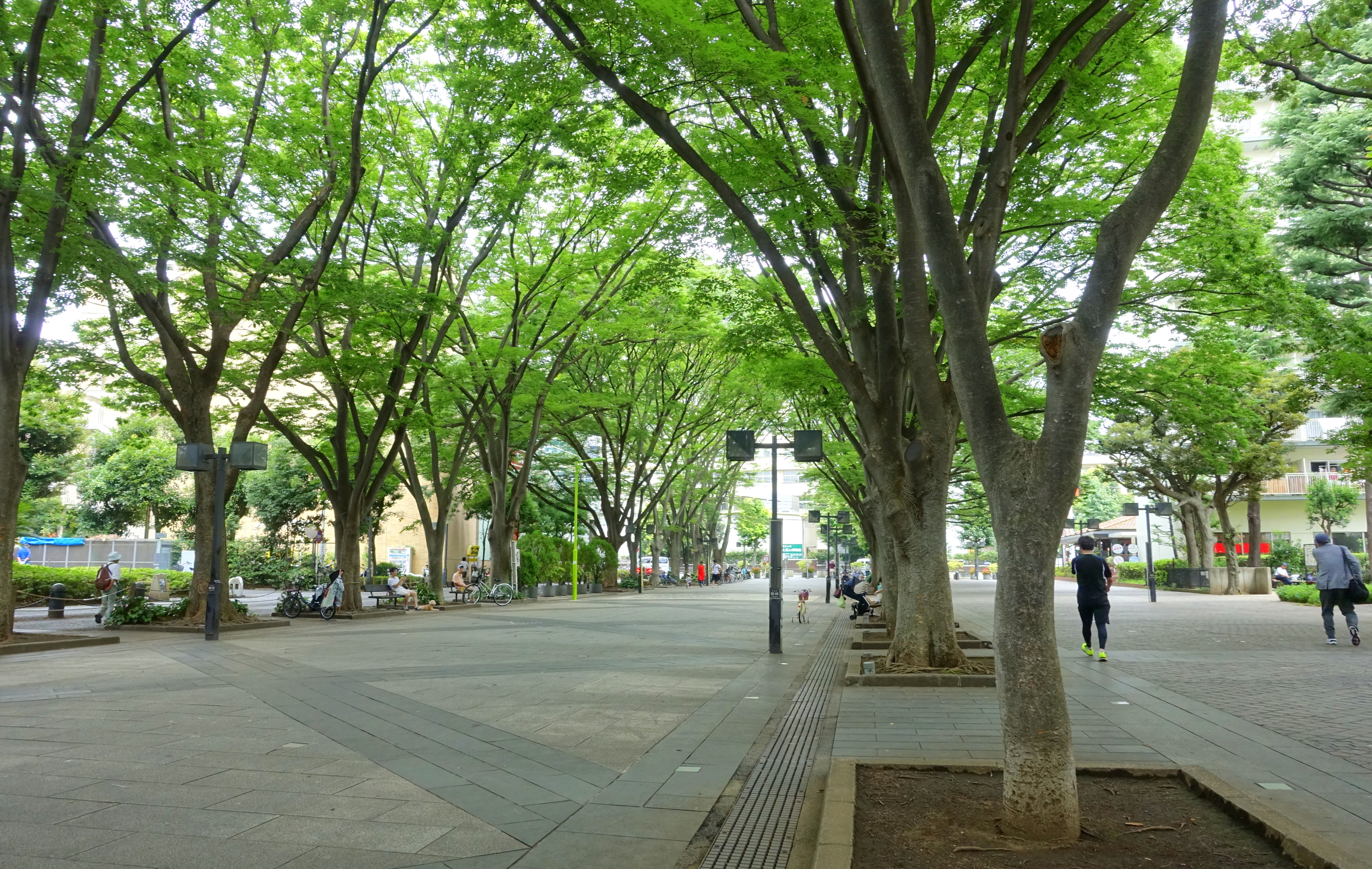 Keyaki Hiroba - Setagya, Tokyo, Japan.